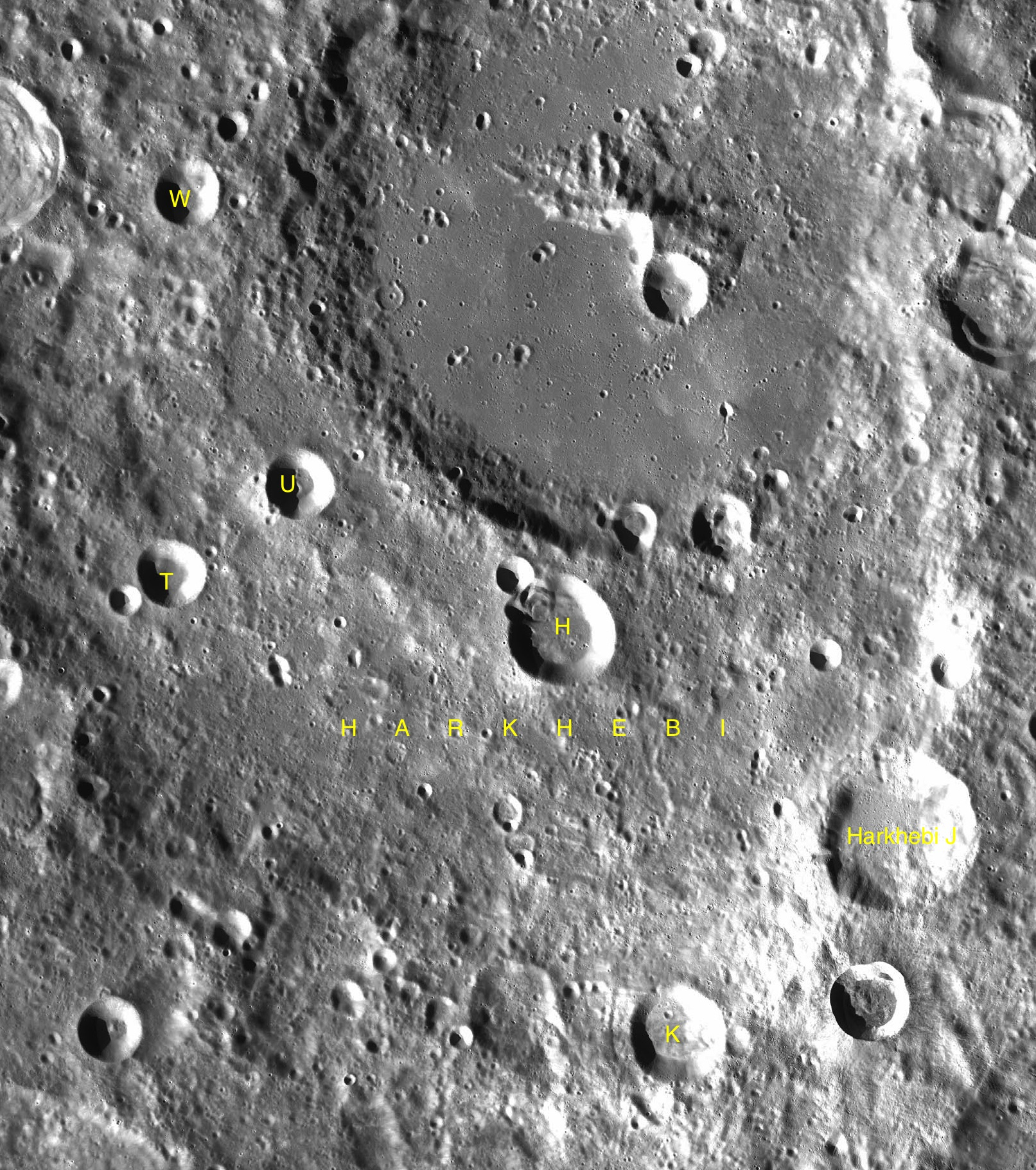 Part of the chart LAC-29